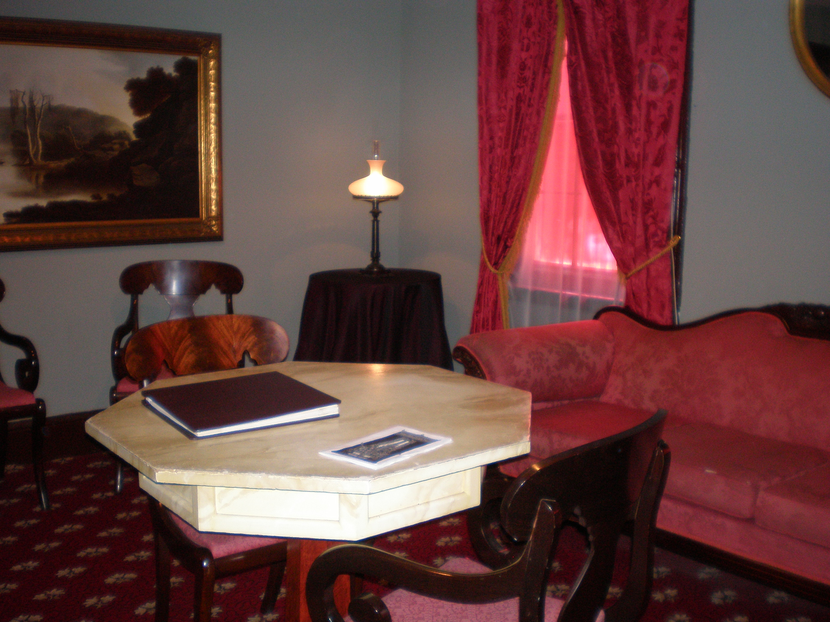 Reading room at the Edgar Allan Poe National Historic Site in Philadelphia, Pennsylvania (USA). It is recreated to follow Poe's recommendations for room decoration in his essay "The Philosophy of Furniture."